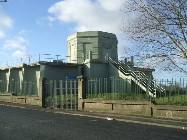 Shaver's End No. 2 Reservoir Water supply reservoir on the continuation of the Wren's Nest/Castle Hill ridges. The limestone ridge forms the watershed between the River Severn and River Trent catchments.